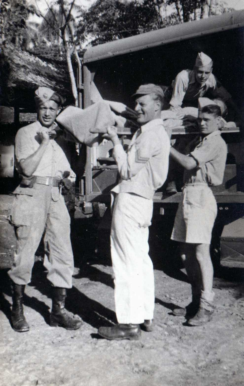 This is a picture of an Dutch Chevrolet ambulance in the dutch East Indies during the politional actions. (First 7 December Division).